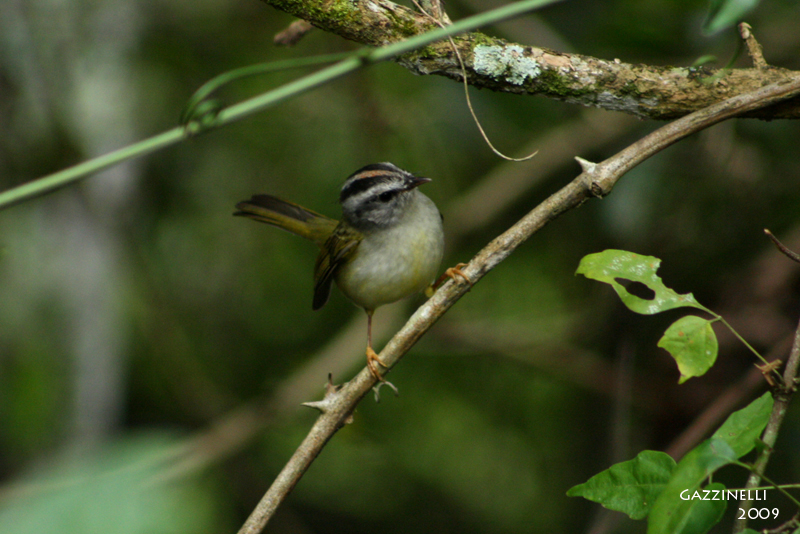 White-bellied Warbler Basileuterus culicivorus hypoleucus